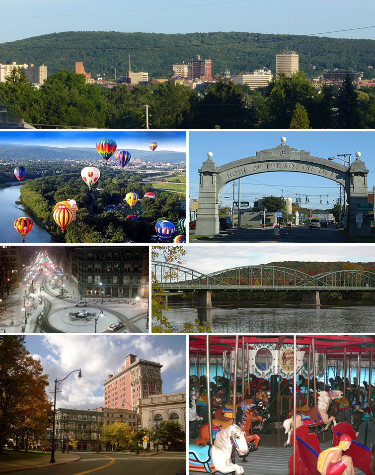 From top left: Binghamton skyline, balloons over Otsiningo Park during Spiedie Fest, the Endicott Johnson Square Deal Arch, downtown Binghamton in winter, the South Washington Street Bridge over the Susquehanna River, the Perry Block and the Press Building, and the Ross Park Zoo carousel.